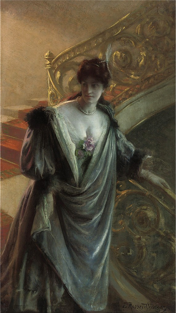 On the way to the ball